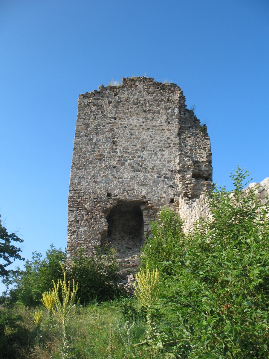 Entrance tower in Koznik fortress above Rasina river on Kopaonik slopes,near Brus, Serbia.